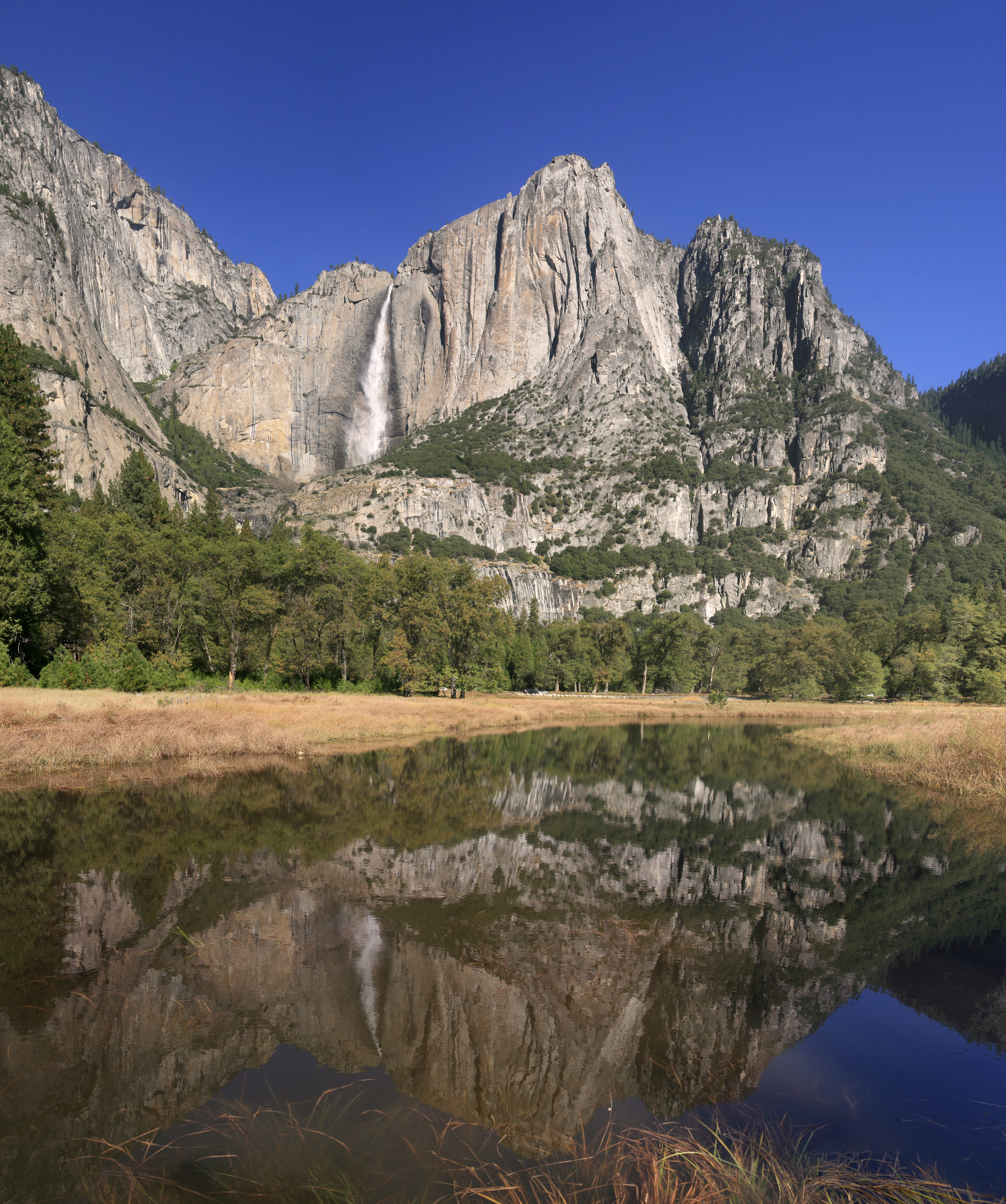 Upper Yosemite fall with reflection in a flooded meadow. This meadow gets flooded during Spring time, and sometimes after Autumn's rain storms